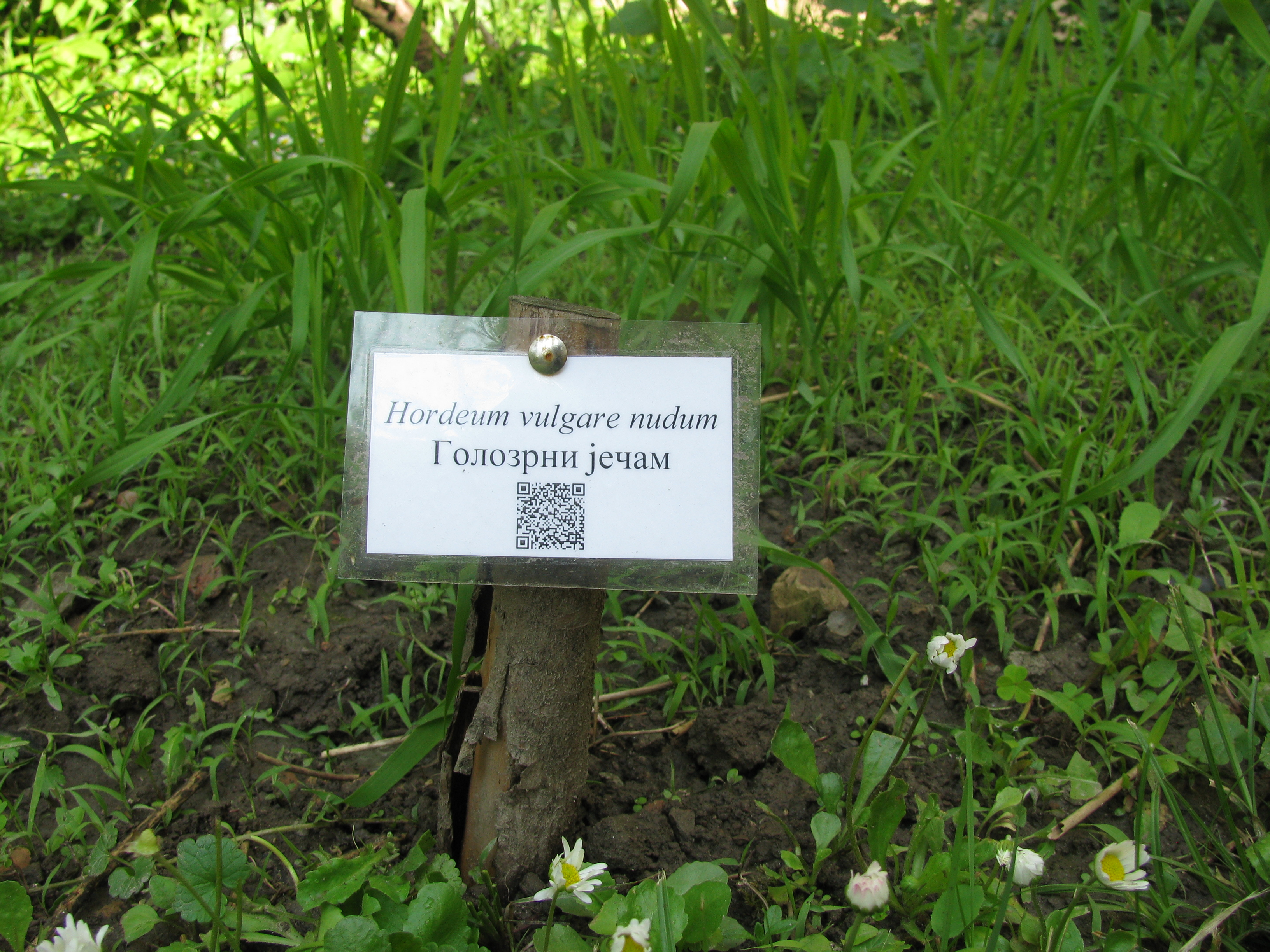 An example of QR label from the Archaeobotanical Garden of the Museum of Vojvodina Srpski (latinica): Primer legende iz Arheobotaničke bašte Muzeja Vojvodine sa QR kodom